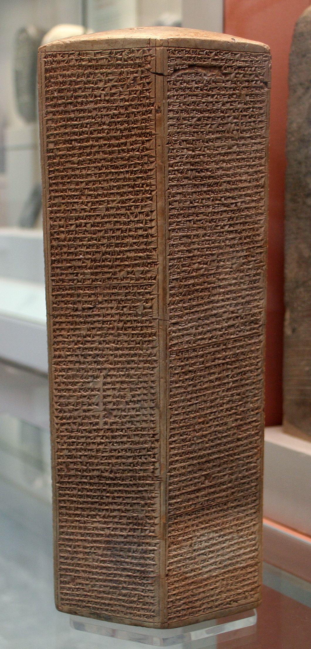 The Taylor Prism from the Neo-Assyrian empire tells the story of king Sennacherib's third campaign and includes descriptions of his conquests in Judah, some of which are described from another point of view in the old testament of the Bible.